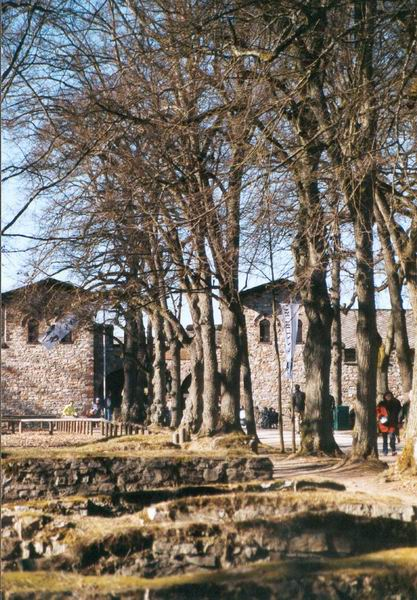 Kastell Saalburg, near Bad Homburg, Germany, reconstructed Roman fort.